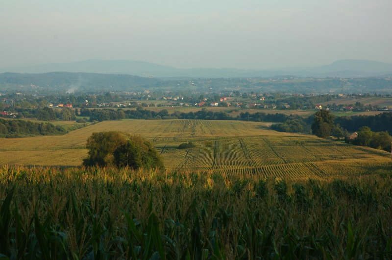 Gmina Biskupice